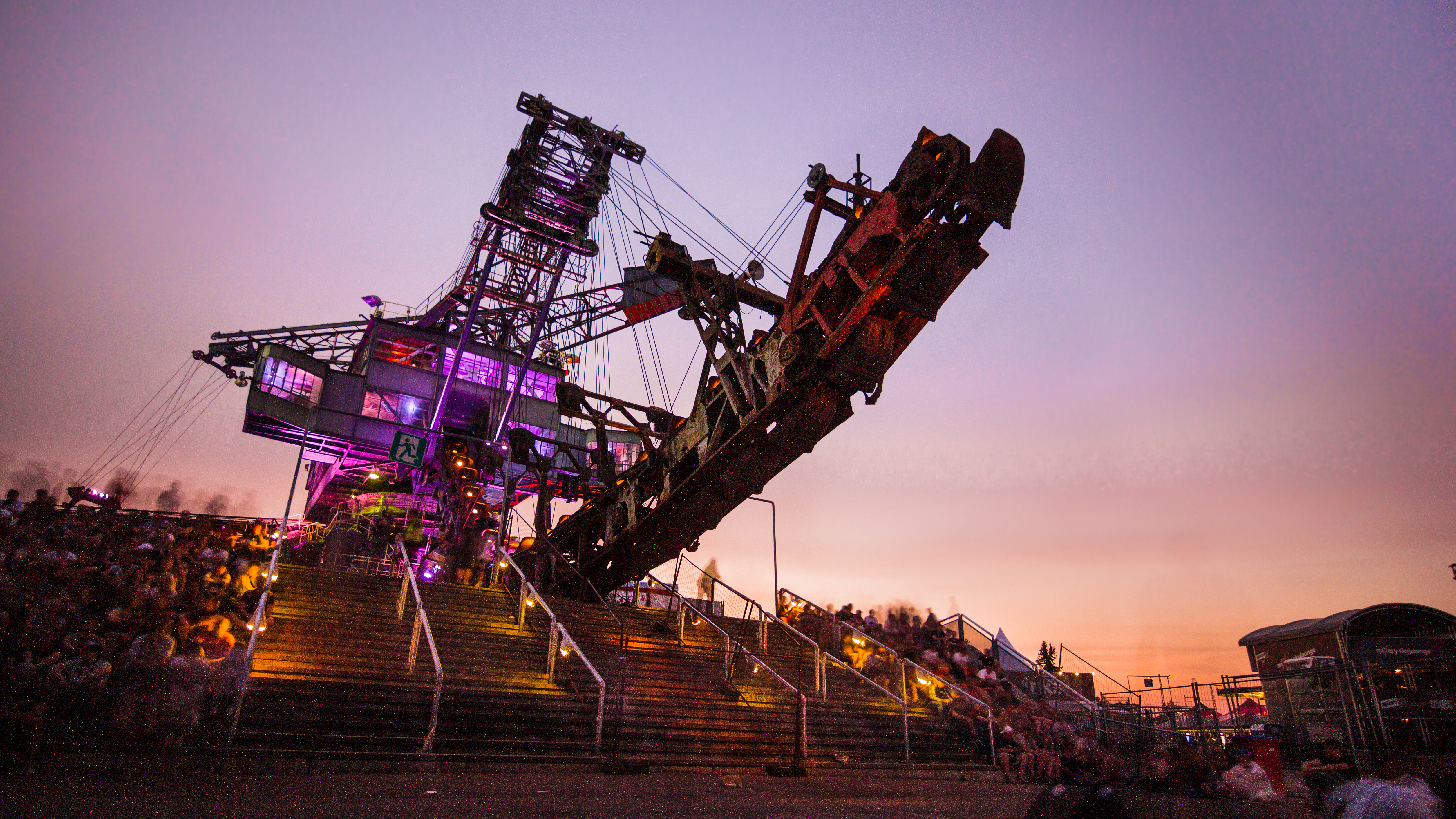 Splash! festivalground